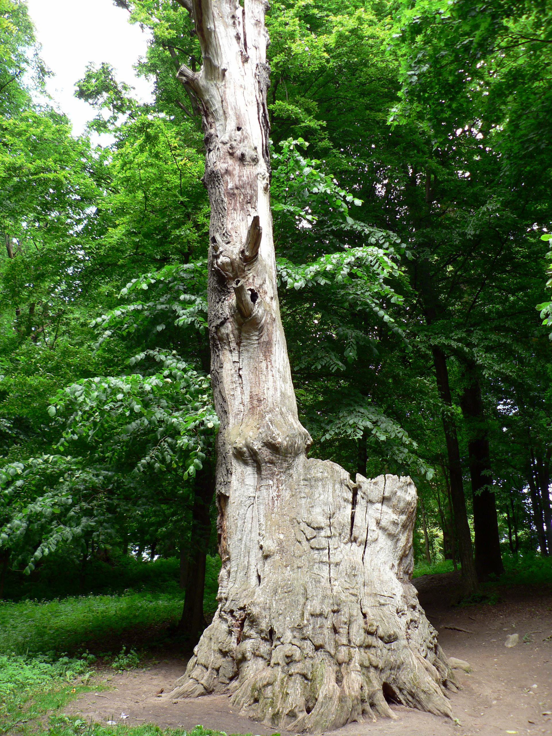 Gediminas oak in Raudone, Lithuania.